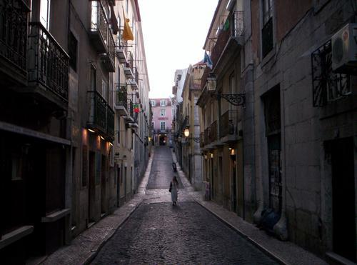 One of the streets leading to Bairro Alto.